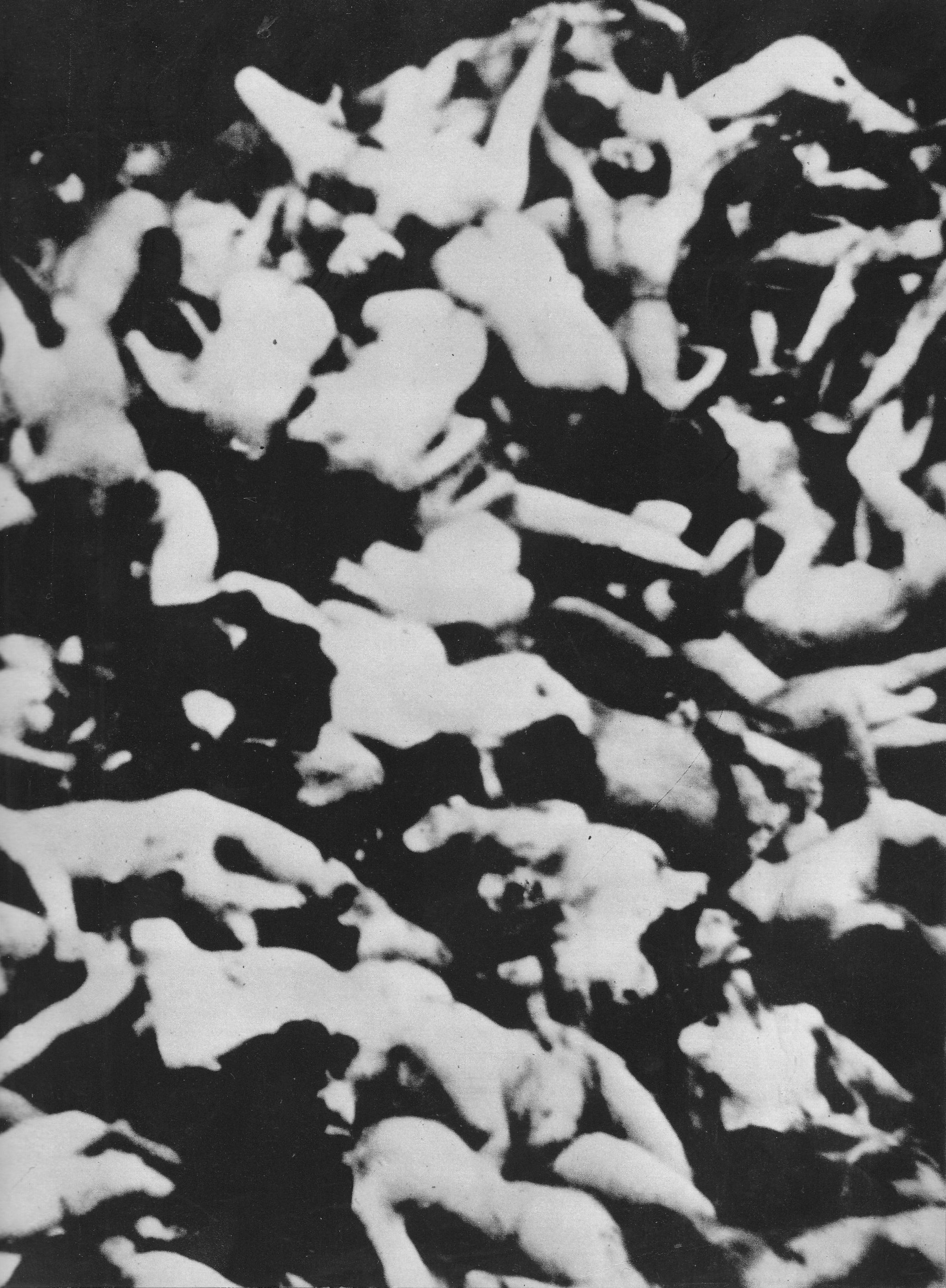 People gassed in the gas chambers at Treblinka extermination camp (unknown date)